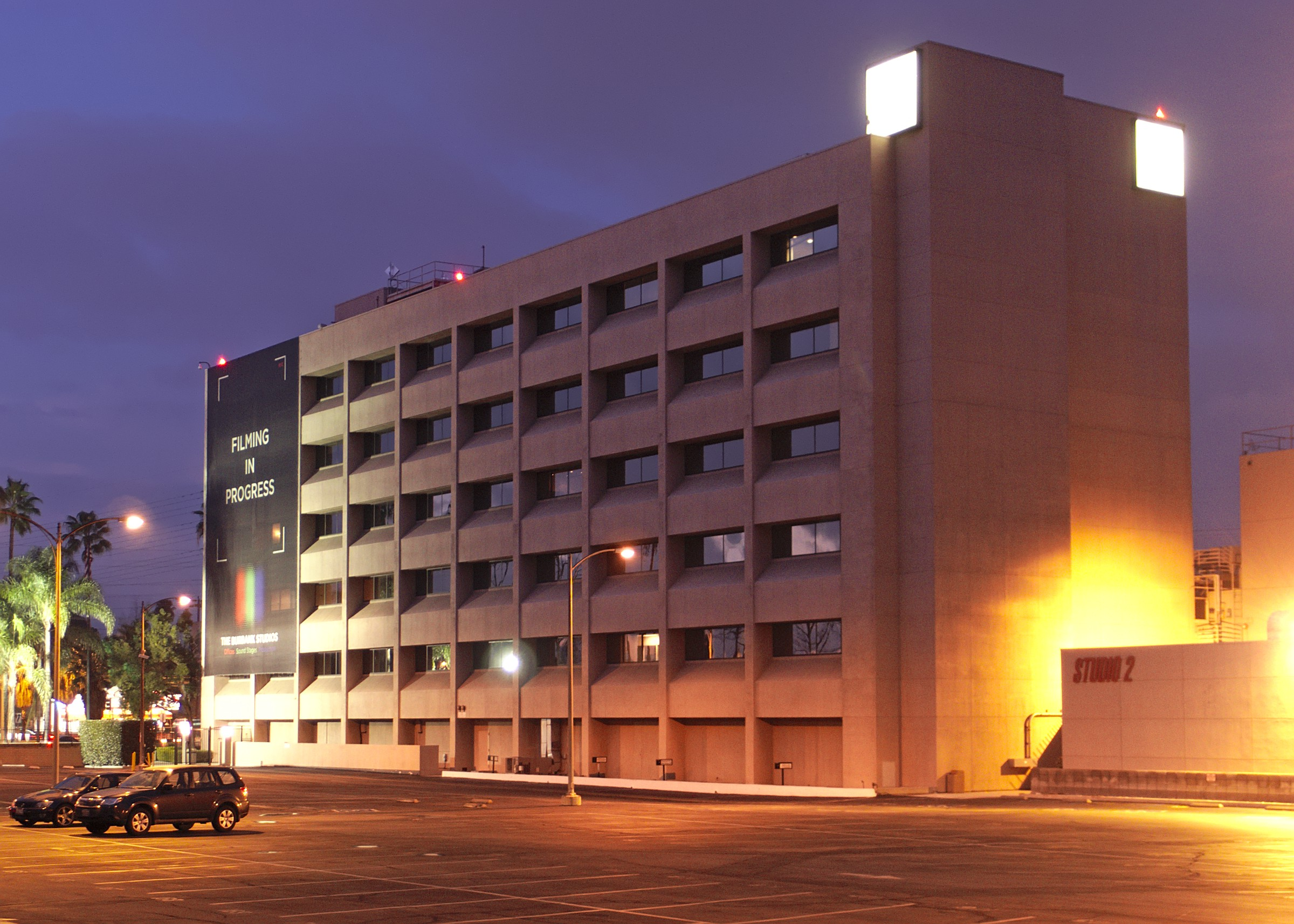 The "California Building" of The Burbank Studios viewed from the southwest at night.